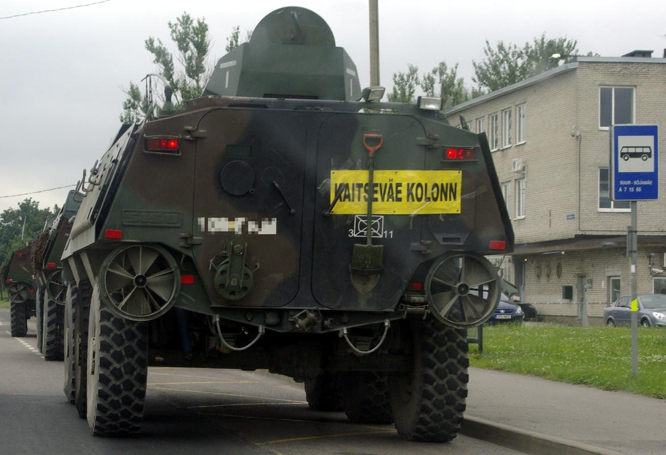 Column of Sisu Pasi 186EST